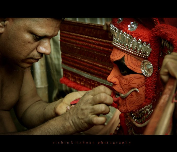 Theyyam artists' intricacies on he face being attended to